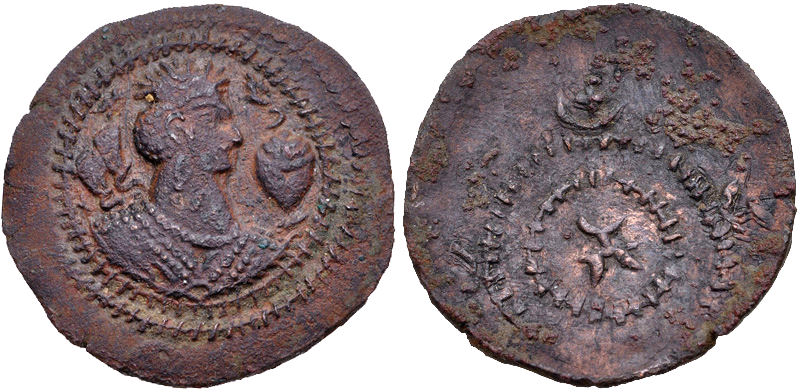 Alkhan-Nezak Crossover coin circa 580/90 to 650/80. Æ Hemidrachm (23mm, 3.10 g, 1h). Nezak style bust right; conch and pseudo-legend to right; all within double border; stars-in-crescents in margin / Alkhan tamgha (type S1) within double border; stars-in-crescents in margin.